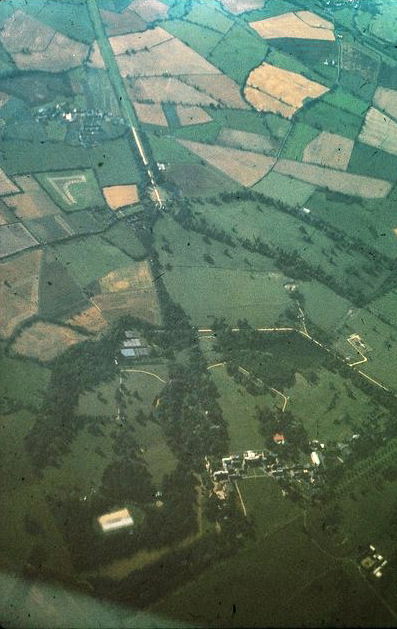 Above Stowe Park (1978) Stowe School in foreground; with route of an old Roman Road stretching away in the distance.